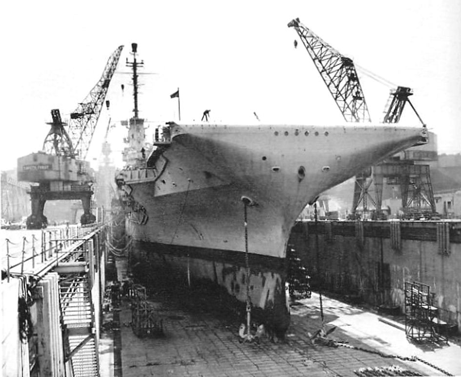 The U.S. Navy aircraft carrier USS Essex (CVS-9) in dry dock at the New York Naval Shipyard, in 1960. Essex had returned from her last deployment as an attack carrier (CVA) to Mayport, Florida (USA), on 26 February 1960 and was redesignated as an anti-submarine carrier on 3 March.